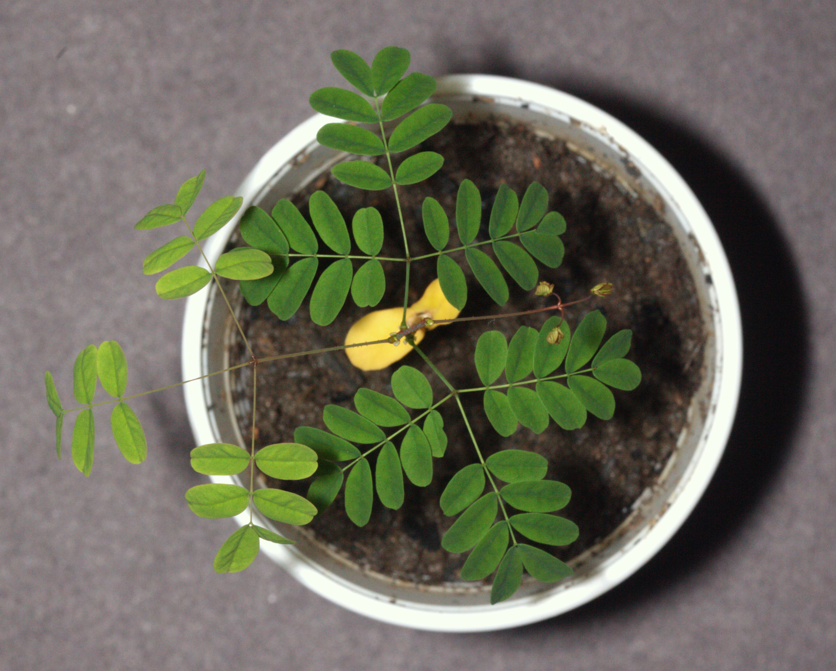 a two weeks old specimen from a seed collected in Ibirapuera Park, São Paulo.